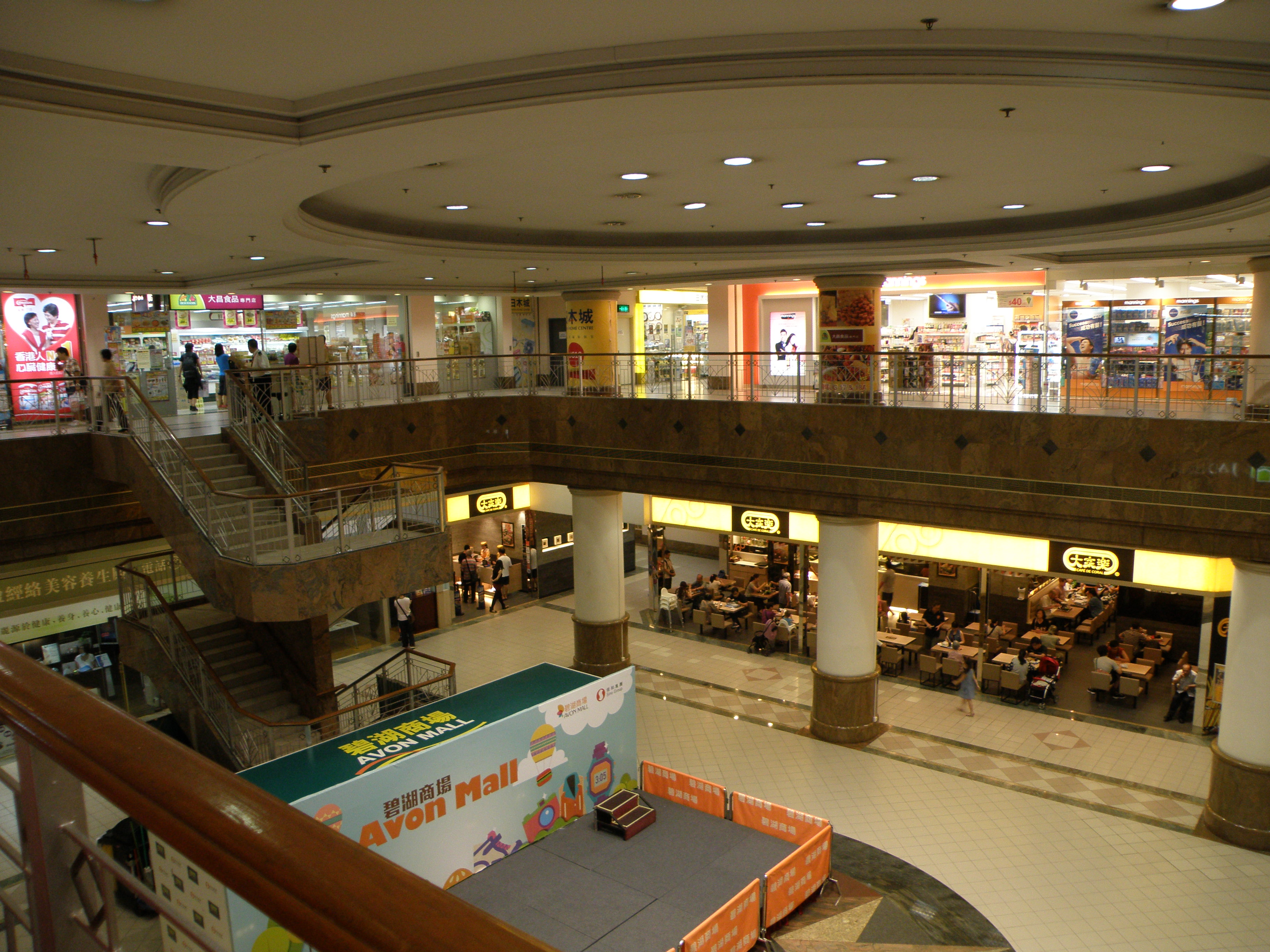 Avon Mall in Fanling, Hong Kong.